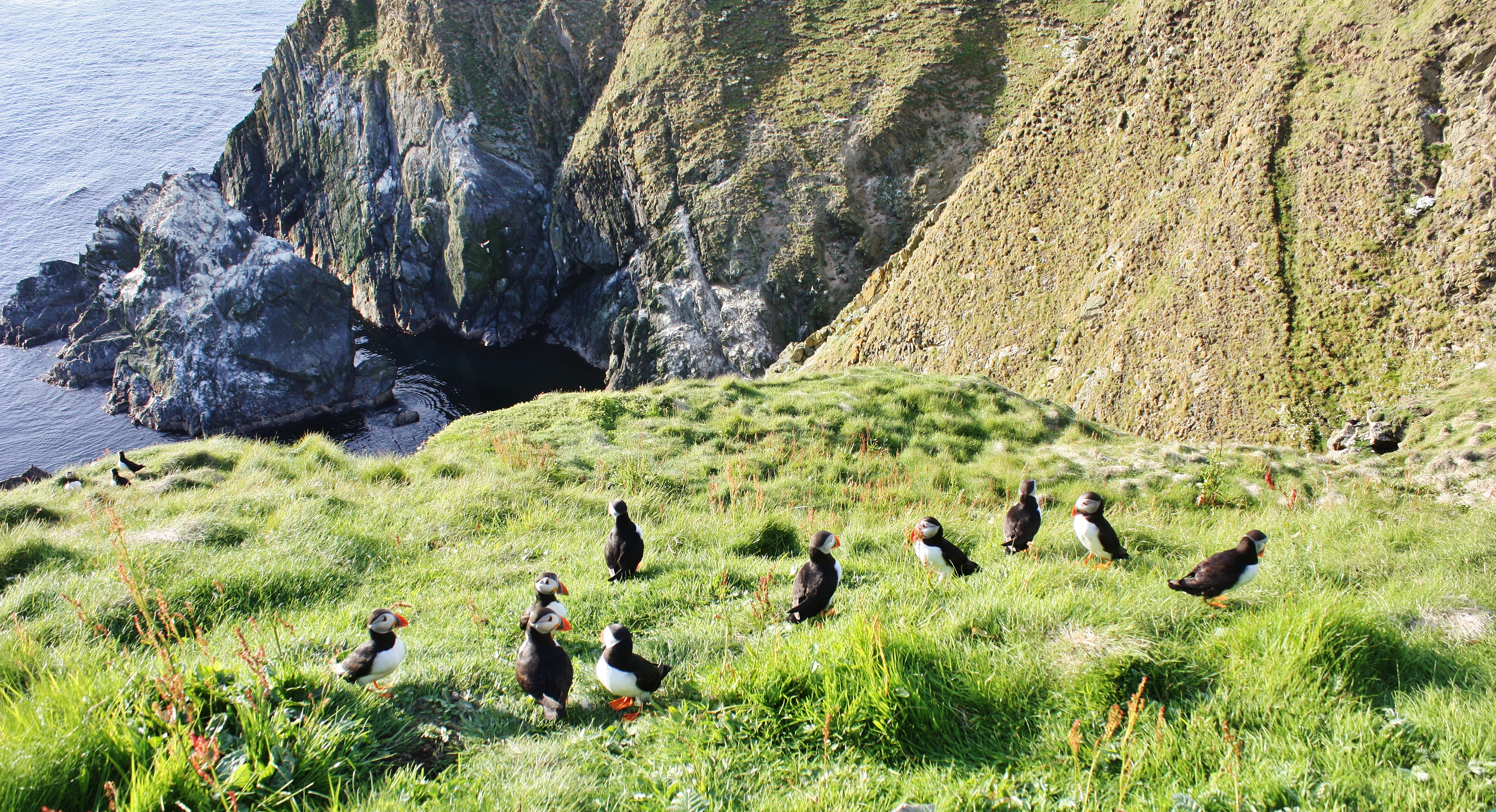 Assembly point !